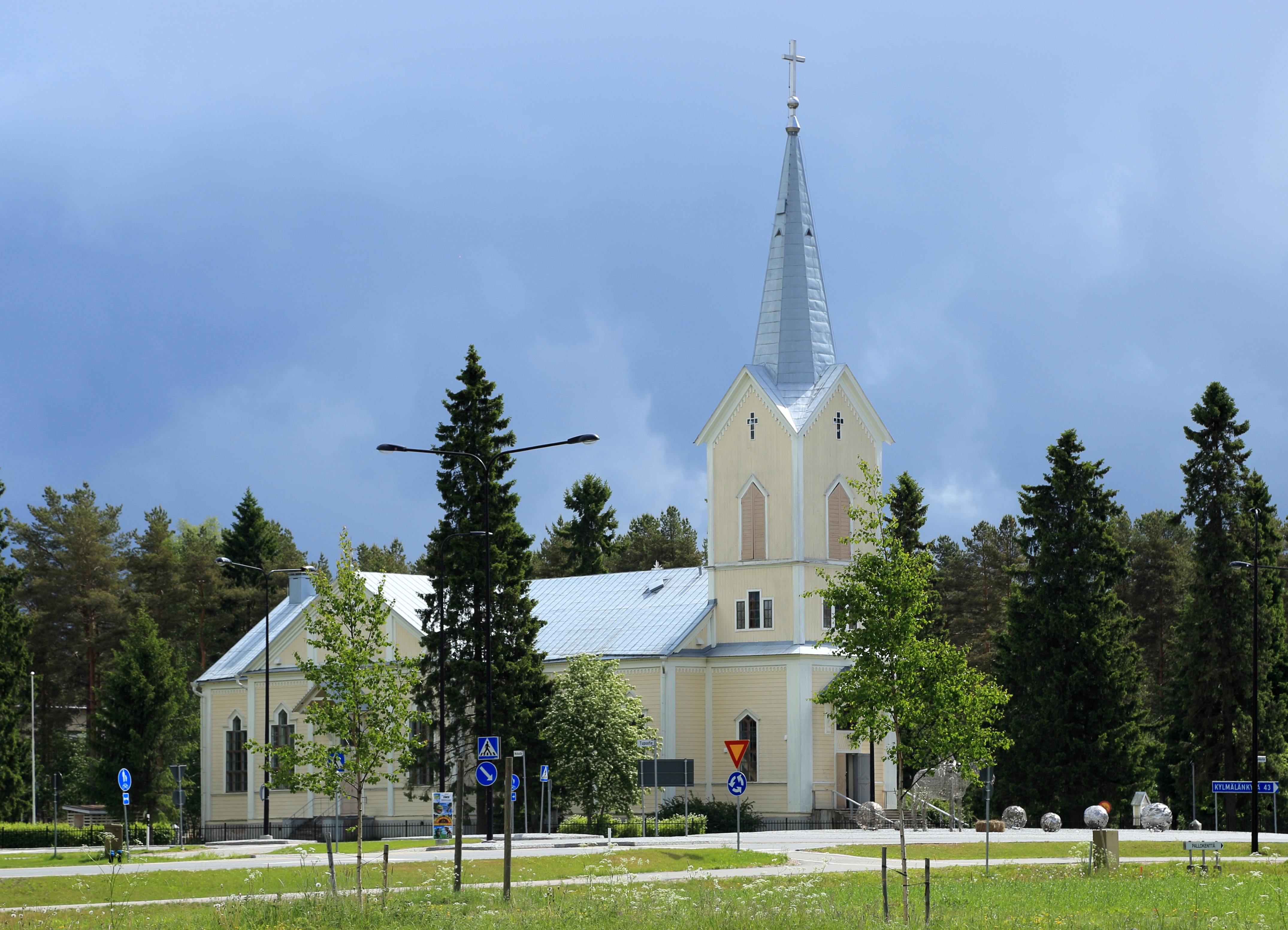 Tyrnävä Church